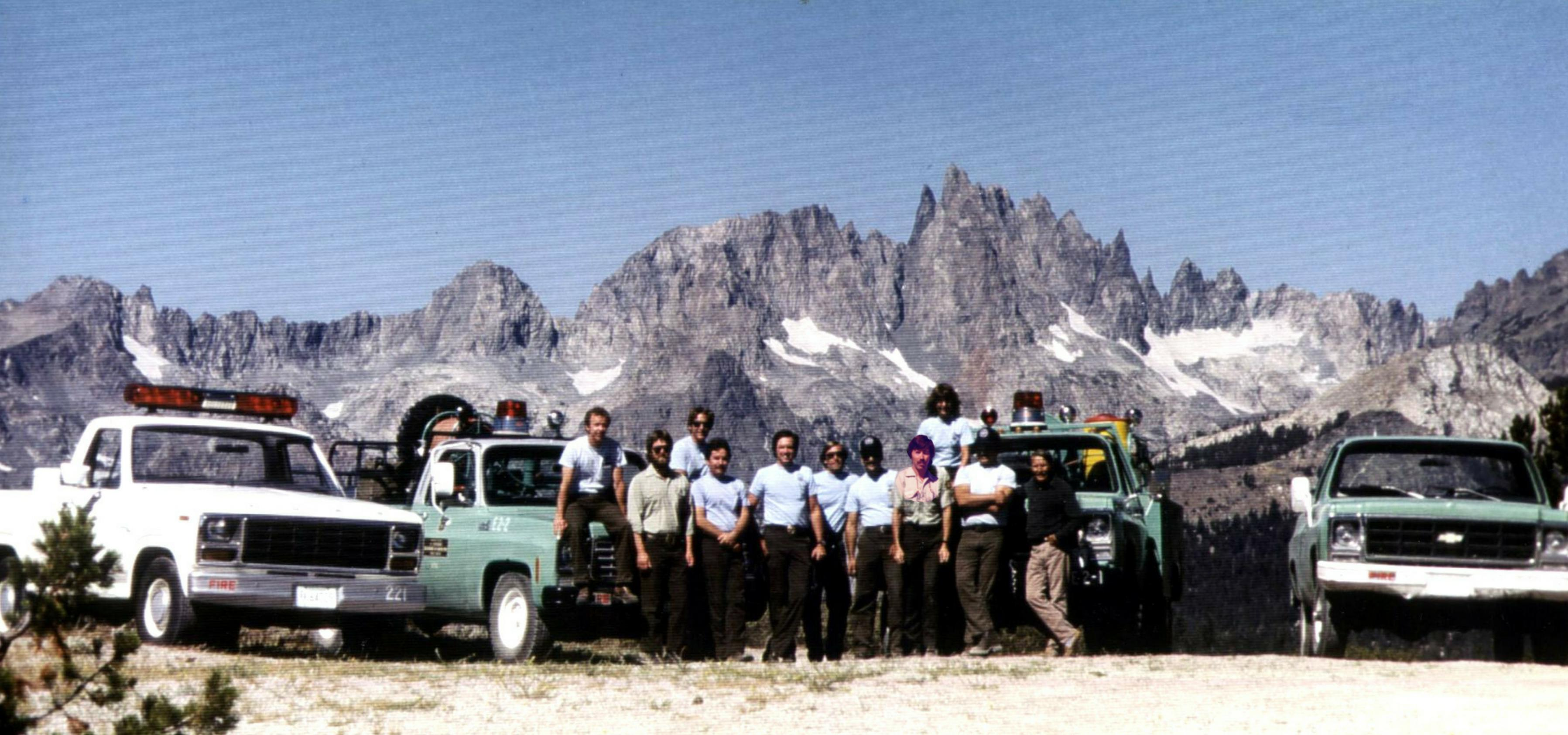 Mammoth Ranger District Fire Crew (Inyo National Forest) at Minaret Summit circa August 1984. From left: Firefighter Van Collinsworth, Officer Bill Schofield, Captain Stew Gore, Battalion Chief Tim McMullen, Firefighter Doug Jastrab, Firefighter Ed Cote, Firefighter Chuck Heffernan, Captain Tom Locker, Engineer Patti Sowell, Engineer Mike Alarid, Division Chief Jim Coleman. Note: "The Minarets" in the background.